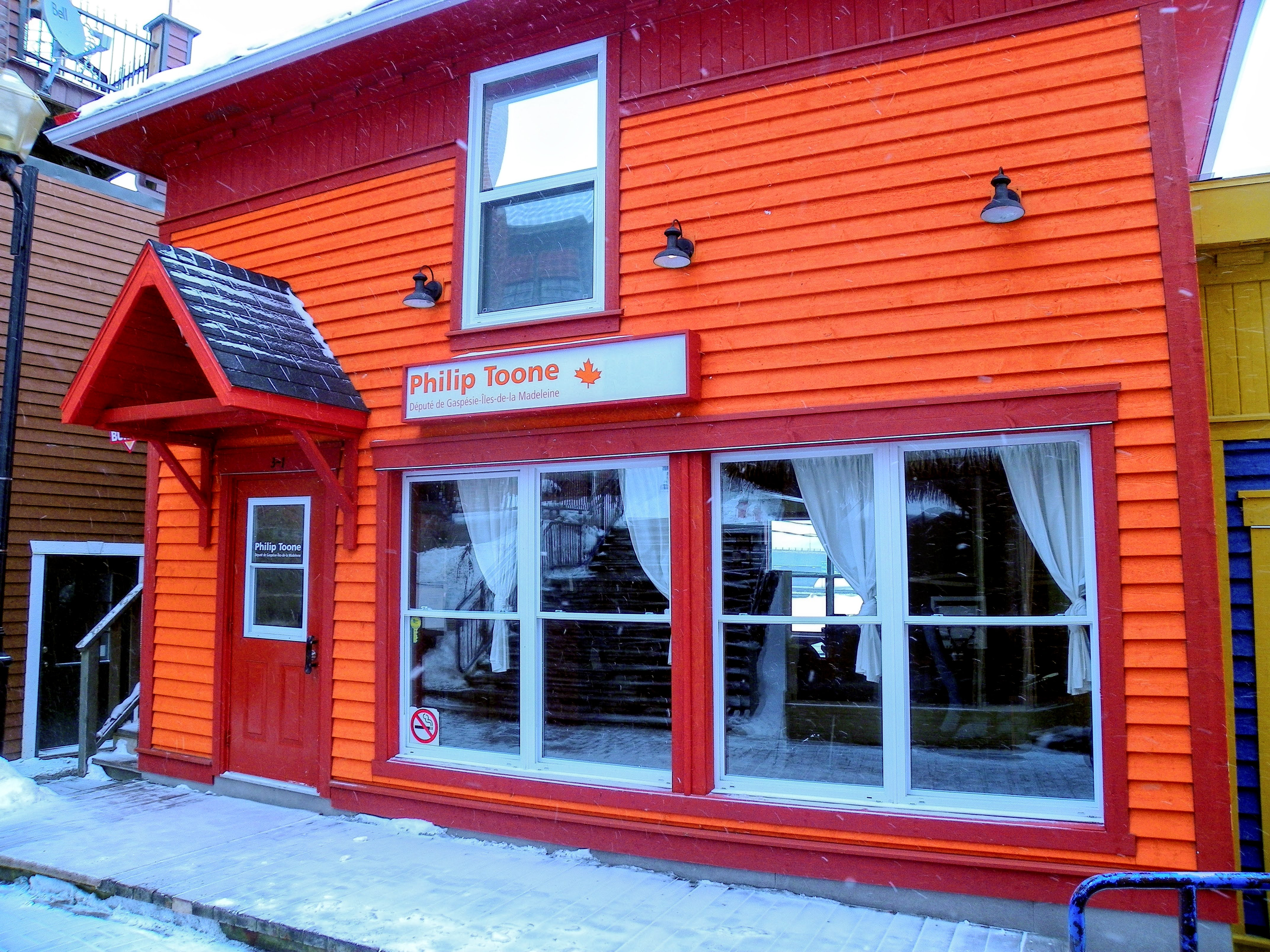 Orange building on Carter Hill in Gaspé, host to Phlip Toone's office, MP for Gaspésie—Îles-de-la-Madeleine.